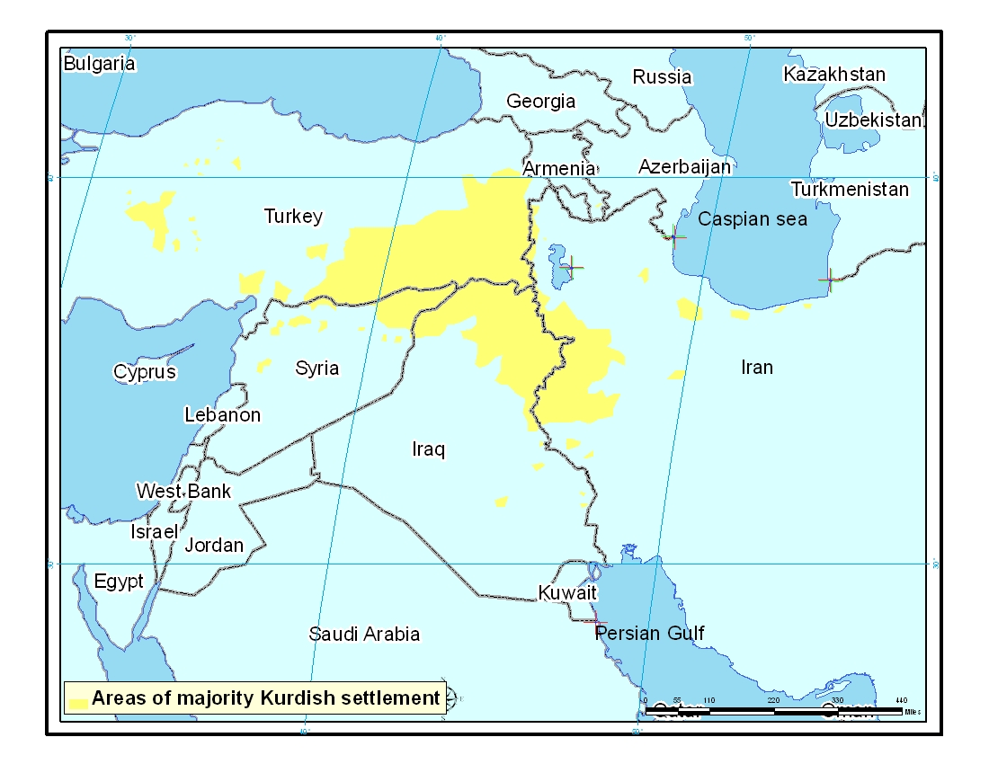 Kurdish area in the Middle East (2007)